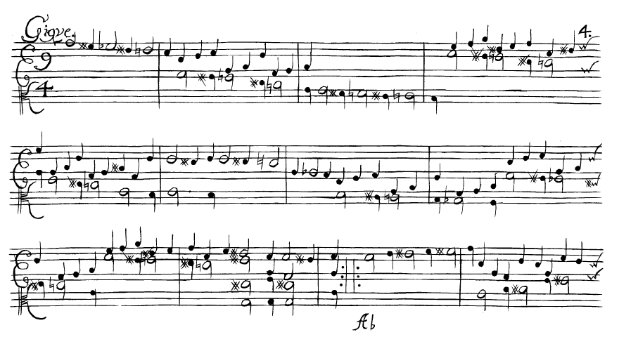 First bars of Gigue from Suite No. 1 in A minor by Johann Paul von Westhoff (published Dresden, 1696)